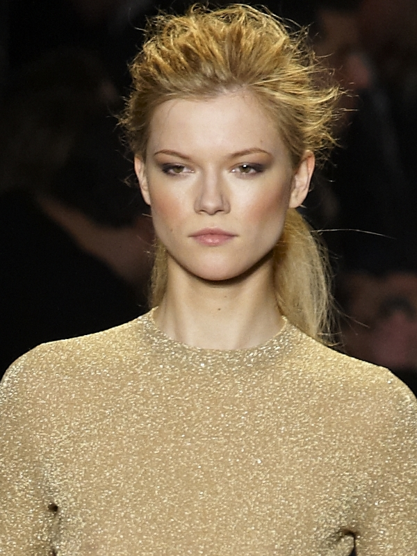 A model walks the runway at the Michael Kors Fall/Winter 2010 show at New York Fashion Week, February 2010.